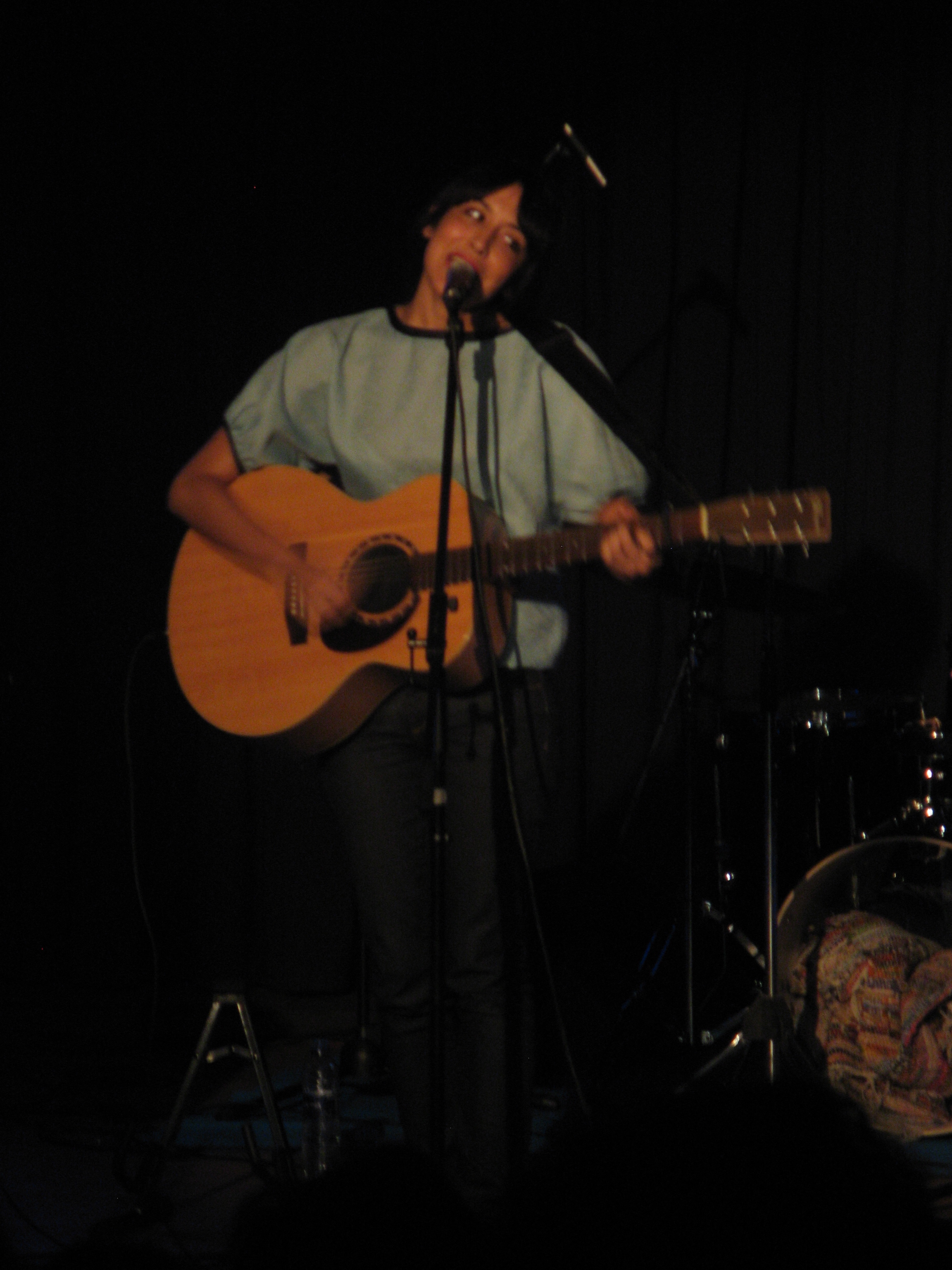 Spanish pop singer Ána López, best known as Anni B. Sweet in a concert perfomed at Centro Cultural Carril del Conde, Madrid, Spain